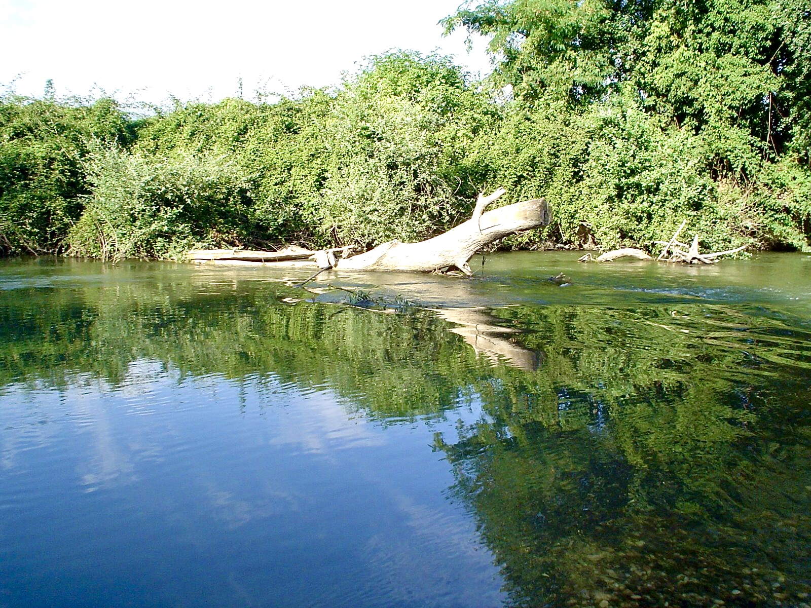 Fiume Volturno